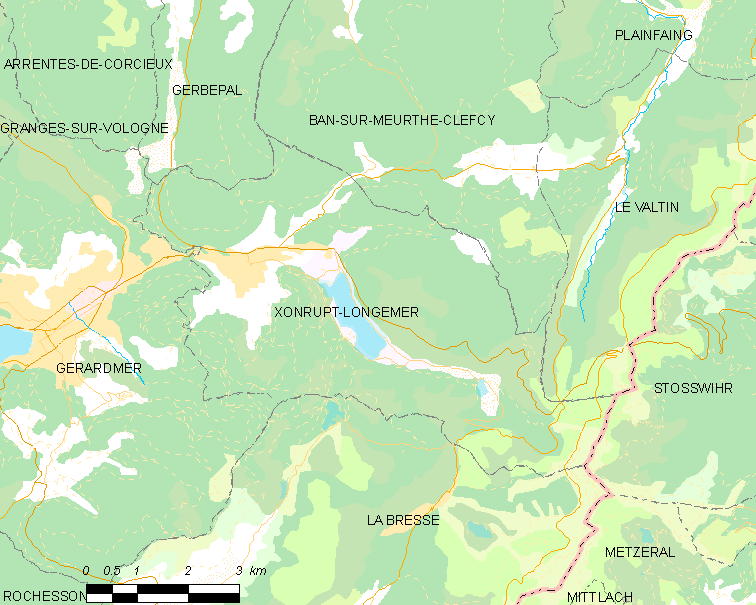 Map of French municipality Xonrupt-Longemer